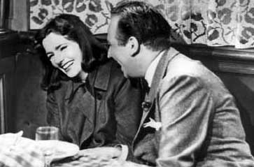 Greta Garbo and Melvyn Douglas in a publicity still for Ninotchka